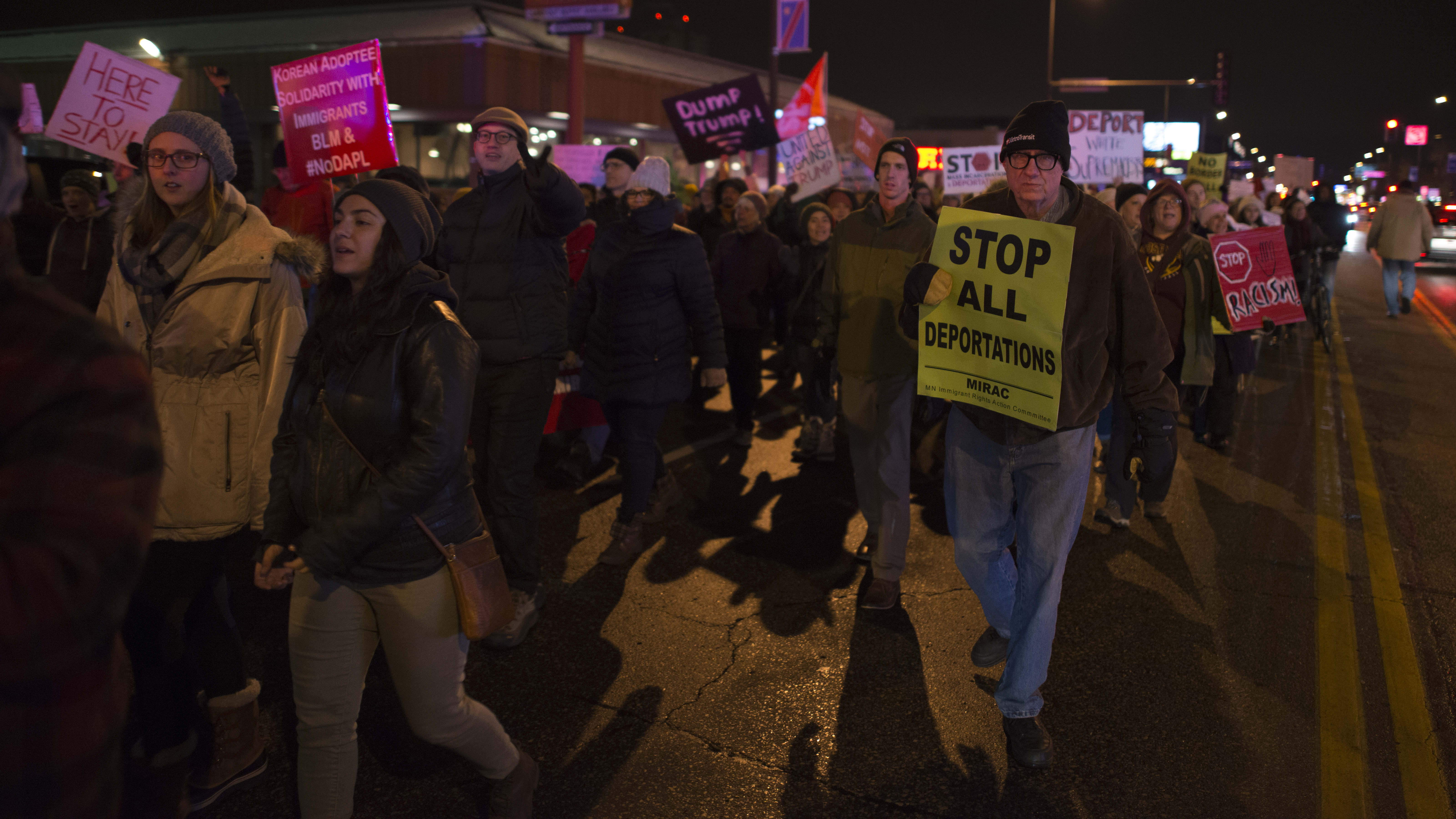 Minneapolis, Minnesota November 23, 2016 About 300 people met in south Minneapolis to march in protest against the proposed policies of President-elect Donald Trump. Protesters denounced bigotry, racism, Islamophobia, and Donald Trump's proposals on immigration. They called for preservation of Deferred Action for Childhood Arrivals (DACA) which allows certain people who came to the United States as children to request deferred action on prosecution for a period of two years, subject to renewal. They also called for an end to deportations, immigration raids, and family detention centers. Organized and endorsed by: Minnesota Immigrant Rights Action Committee (MIRAc), Anti-War Committee, Augsburg Latin American Students (ALAS), BlackLivesMatter Saint Paul, Blue LIES Matter, Boneshaker Books, Centro de Trabajadores Unidos en Lucha (CTUL), St. Cloud State University Chicana Chicano Studies, Committee in Solidarity with the People of Syria (CISPOS), Communities United Against Police Brutality (CUAPB), De León & Nestor, University of Minnesota Department of Chicano and Latino Studies, 15 Now Minnesota, Freedom Road Socialist Organization, Interfaith Coalition on Immigration (ICOM), James Dewitt Yancey Foundation MN Chapter, University of Minnesota La Raza Student Cultural Center, Minnesota Neighbors for Justice, Minnesota Peace Action Coalition, RELEASE MN 8 families, Saint Paul For Justice, Socialist Alternative, Students for a Democratic Society, Twin Cities Coalition for Justice 4 Jamar, Twin Cities IWW General Defense Committee Local 14, Veterans for Peace Chapter 27 Minneapolis, Welfare Rights Committee, Women Against Military Madness (WAMM) 2016-11-23 This is licensed under a Creative Commons Attribution License. Give attribution to: Fibonacci Blue